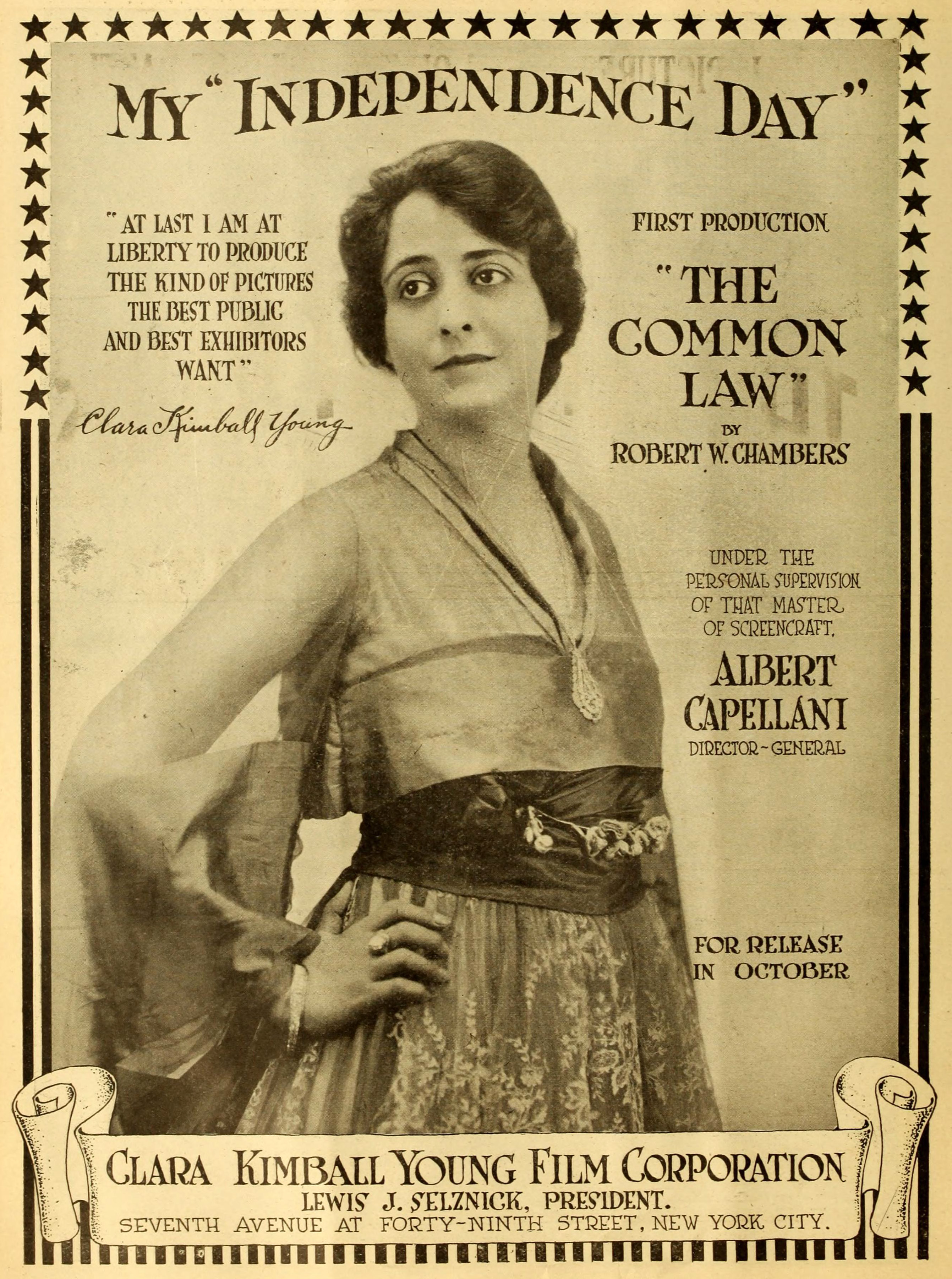 Advertisement in The Moving Picture World the American film The Common Law (1916).